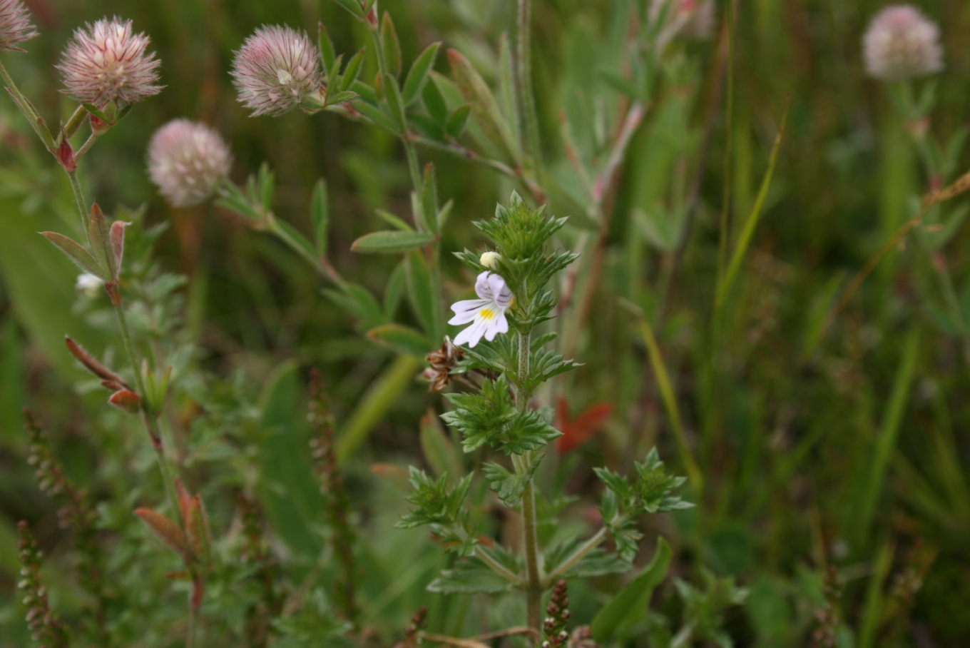 Euphrasia stricta: Flower and foliage.